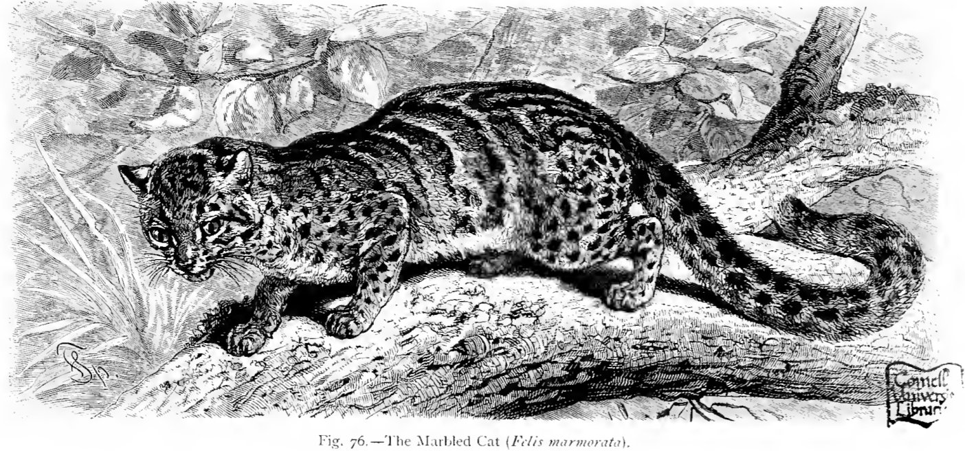 Marbled Cat (Pardofelis marmorata)